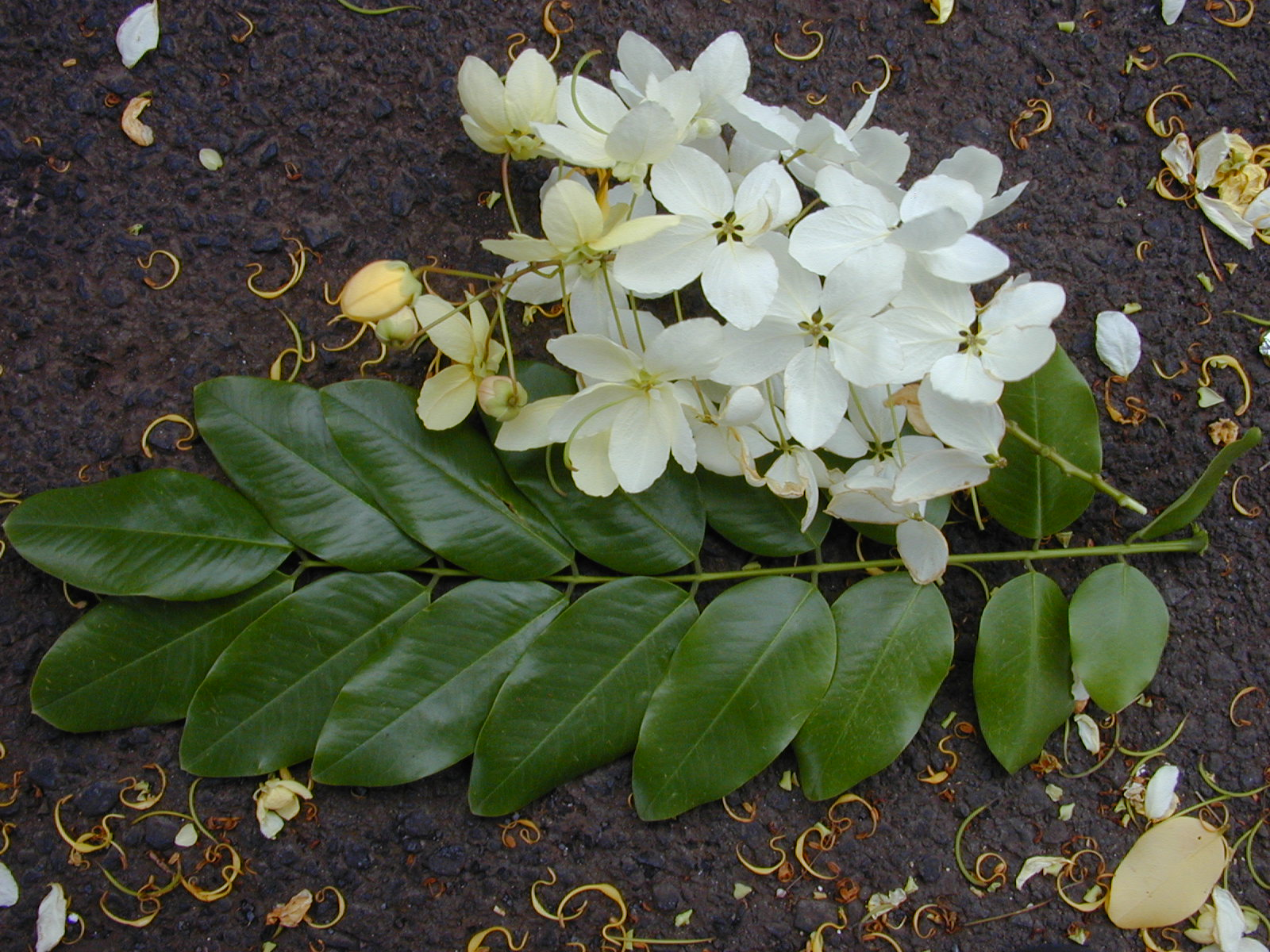 Cassia x nealiae (leaves and flowers). Location: Maui, Kahului